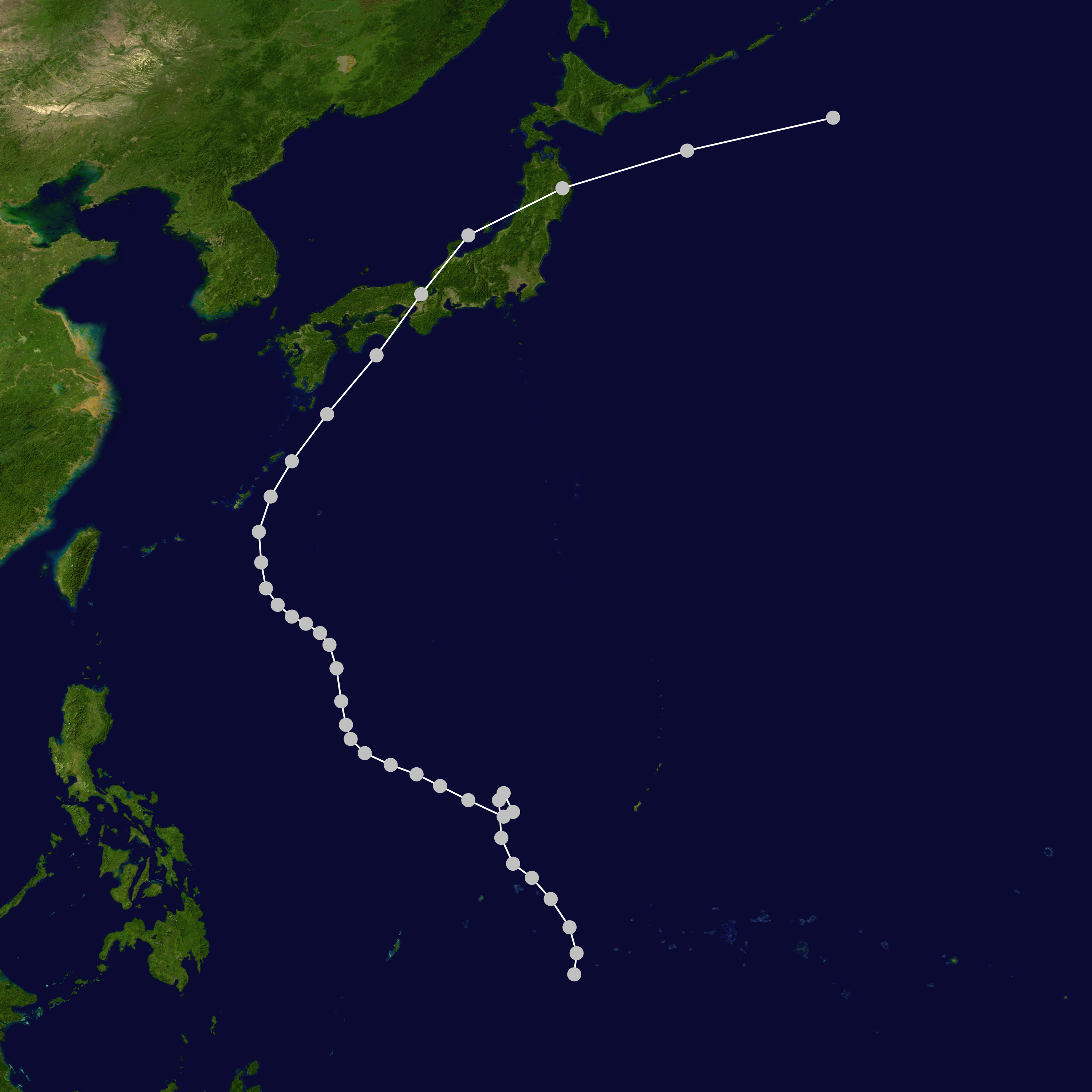 Track map of 1934 Muroto typhoon of the 1934 Pacific typhoon season. The points show the location of the storm at 6-hour intervals. The colour represents the storm's maximum sustained wind speeds as classified in the Saffir–Simpson scale (see below), and the shape of the data points represent the nature of the storm, according to the legend below. Saffir–Simpson scale Tropical depression≤38 mph≤62 km/h Category 3111–129 mph178–208 km/h Tropical storm39–73 mph63–118 km/h Category 4130–156 mph209–251 km/h Category 174–95 mph119–153 km/h Category 5≥157 mph≥252 km/h Category 296–110 mph154–177 km/h Unknown Storm typeTropical cycloneSubtropical cycloneExtratropical cyclone / Remnant low / Tropical disturbance